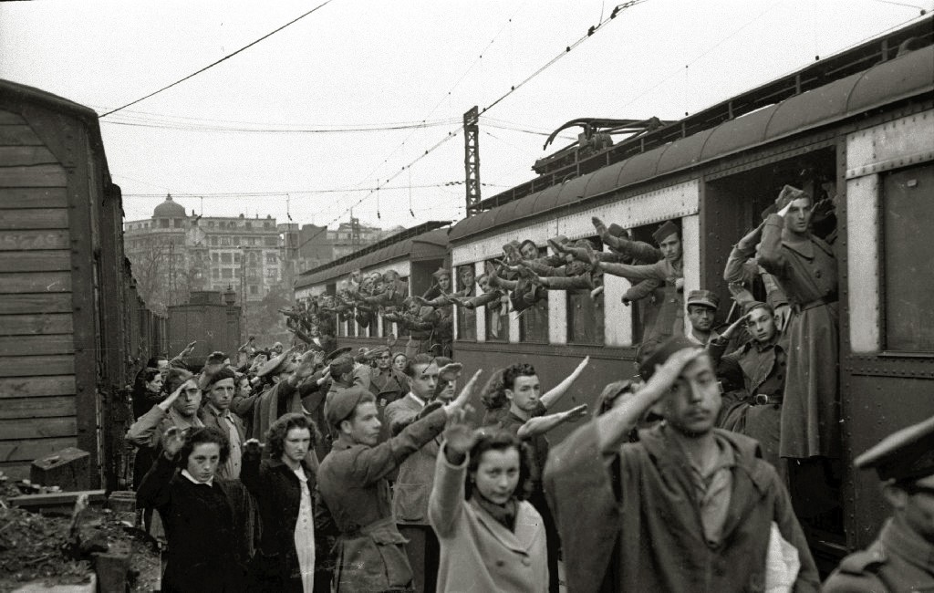 Francoist soldiers volunteering to the Soviet Union campaign and women at the Atotxa station, Donostia-San Sebastián, Basque Country